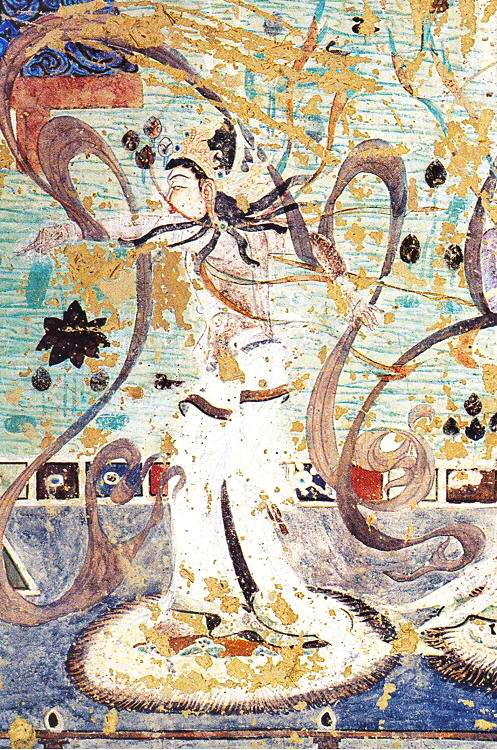 Dancer in mural from Mogao cave 220. Early Tang Dyansty.